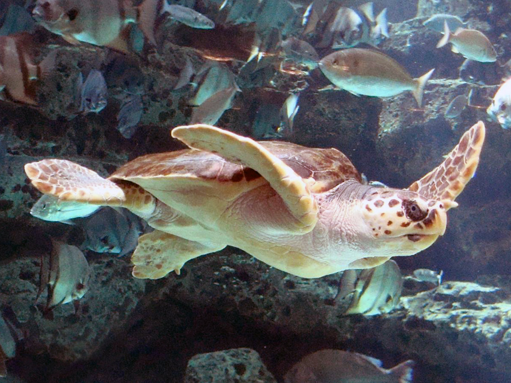 A Loggerhead Sea Turtle at the Georgia Aquarium in Atlanta, Georgia.